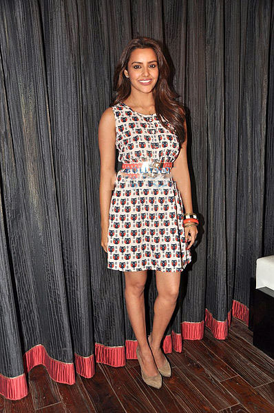 Indian actress Priya Anand during the promotional event of Rangrezz